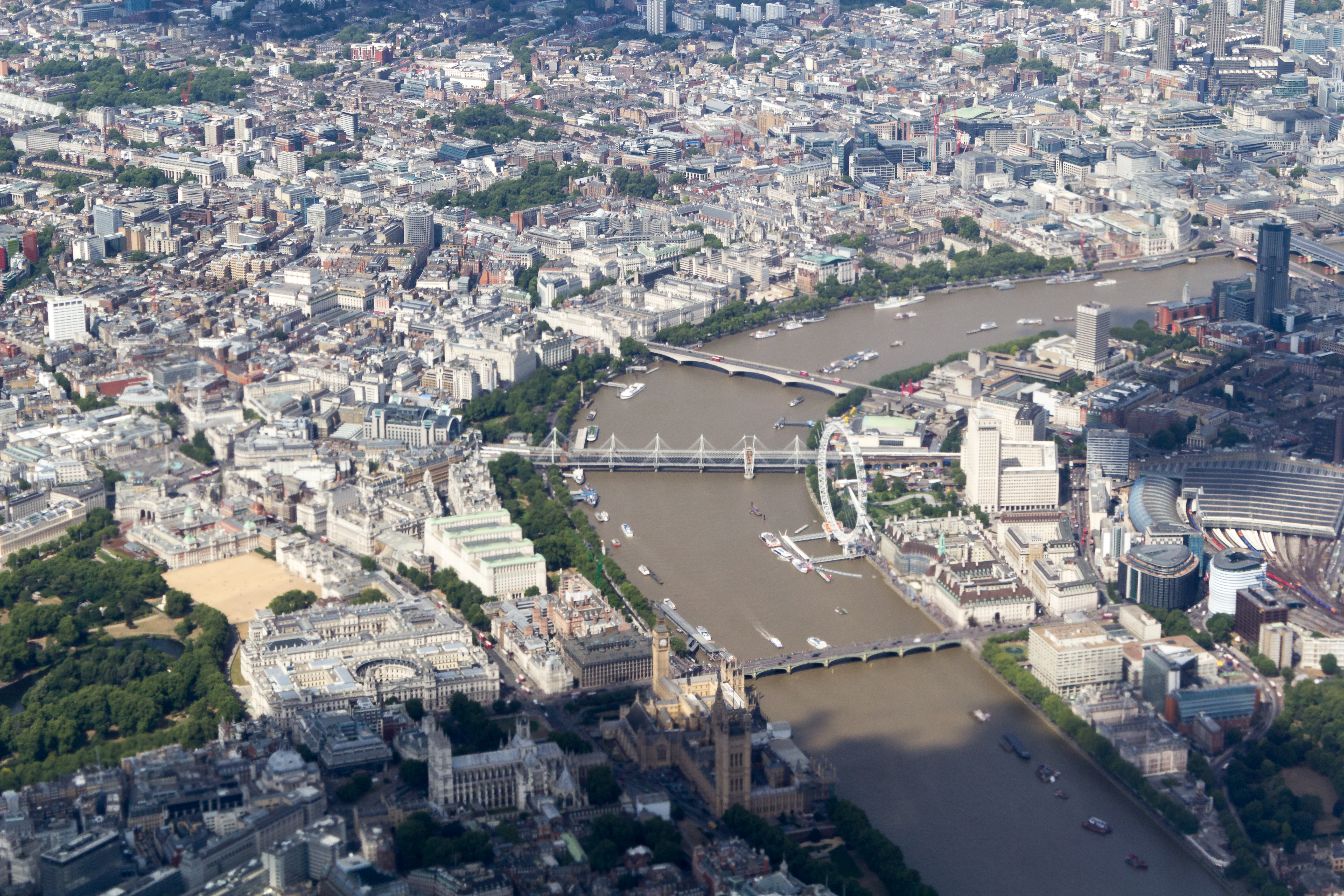 Aerial photograph of London taken on a Boeing 787-8 Dreamliner registration N967AM on approach to London Heathrow Airport (LHR/EGLL).